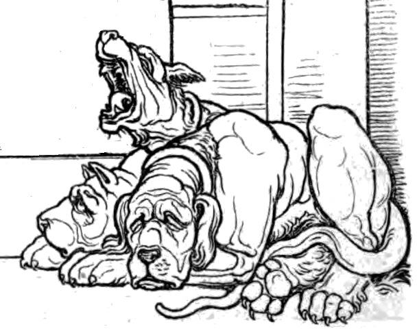 Fluffy is guarding something, but fell asleep because of the harp music